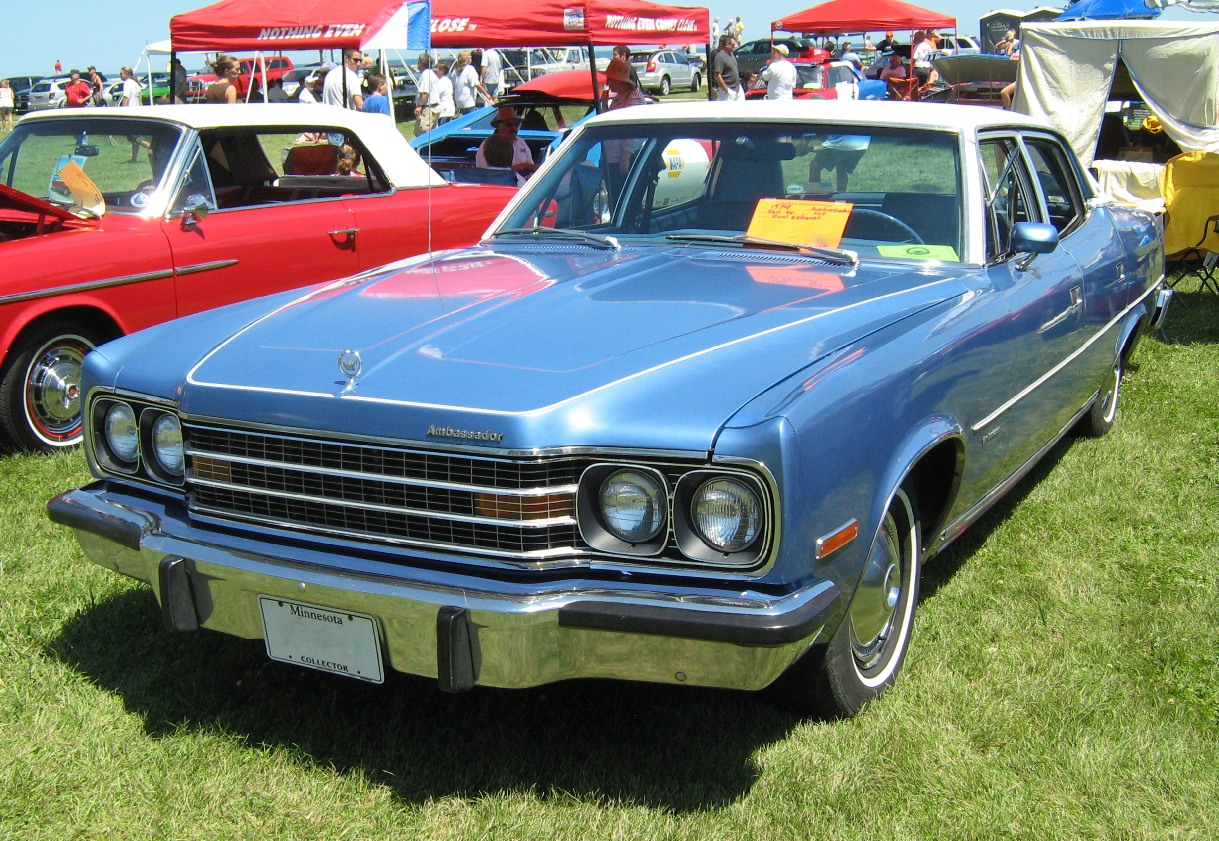 1974 AMC Ambassador Brougham four-door sedan finished in blue with a white vinyl covered roof and standard white bodyside and hood pin stripes. Built by American Motors in Kenosha, Wisconsin. All Ambassadors were equipped with V8 engines, automatic transmissions, power steering and disk brakes, air conditioning, radio, and numerous other standard comfort features.